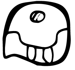 Maya:glyph:logogram:calendric:Tzolkin:Day04:Kan:codex+W:v01. Img created by CJLL Wright.